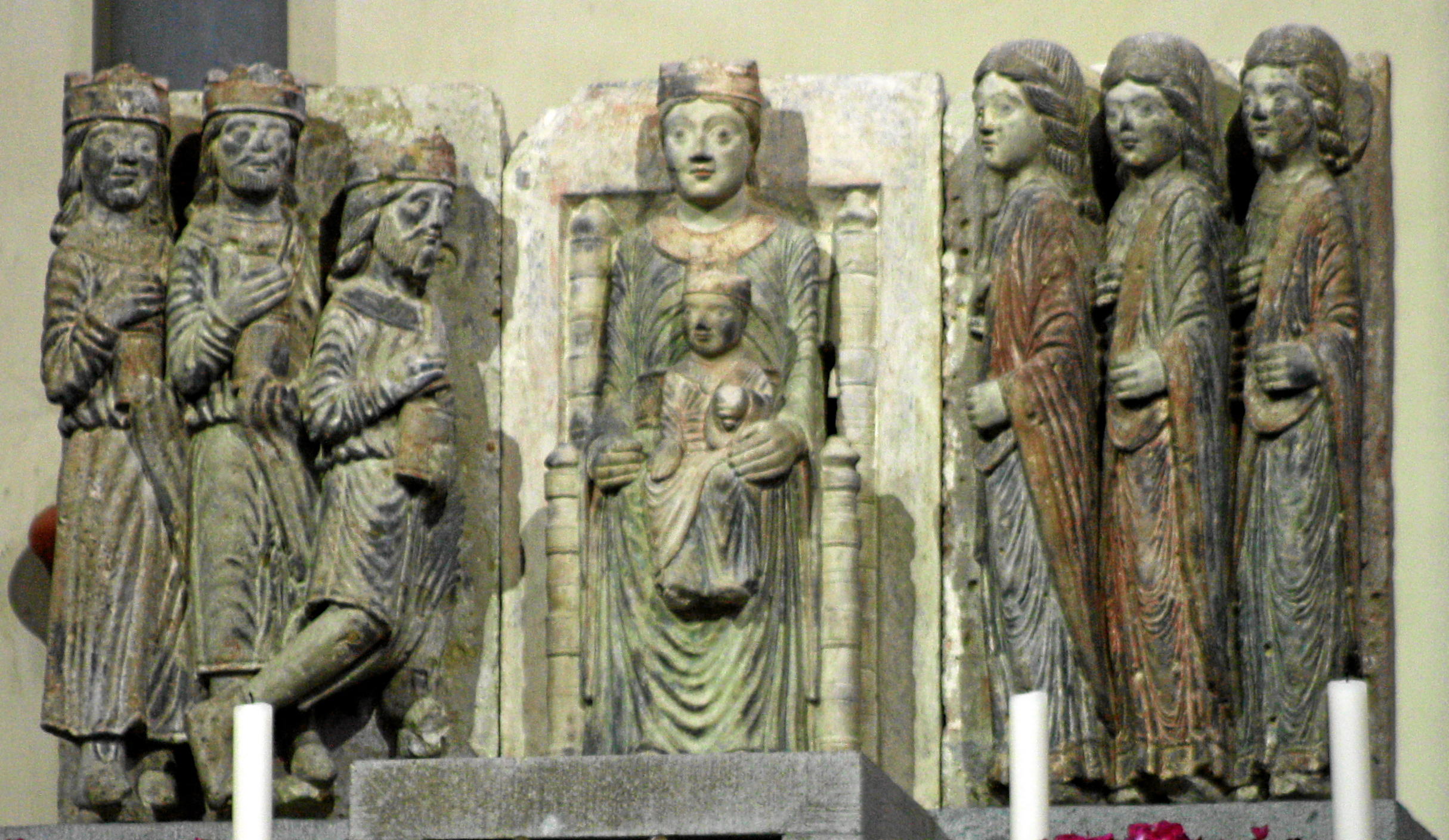 Königswinter-Oberpleis, Germany. Roman-catholic church St. Pankratius, relief of the magi.